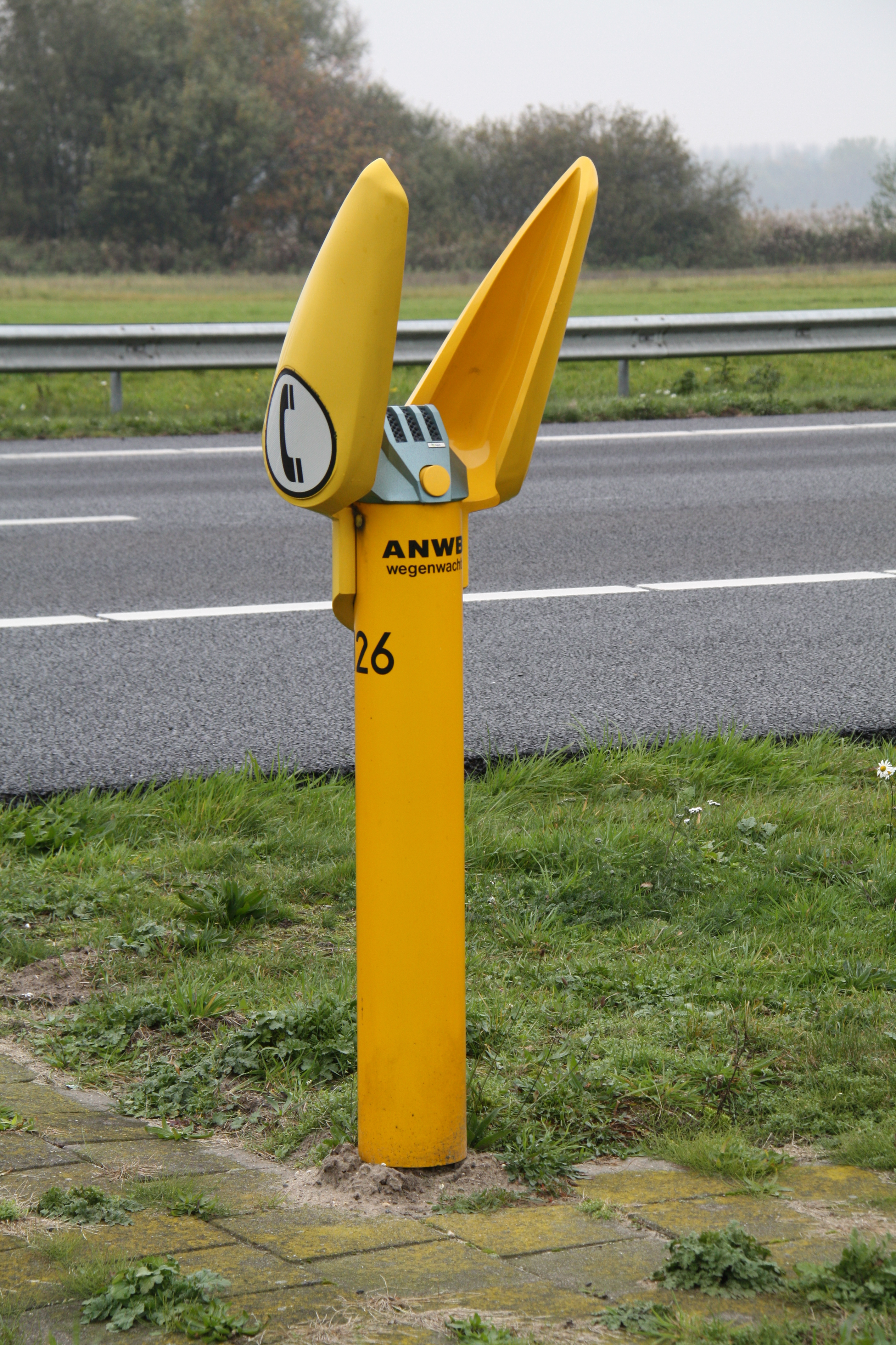 Emergency telephone